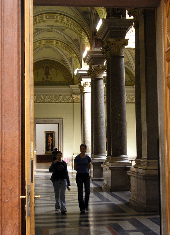 The Palace of Arts, Budapest